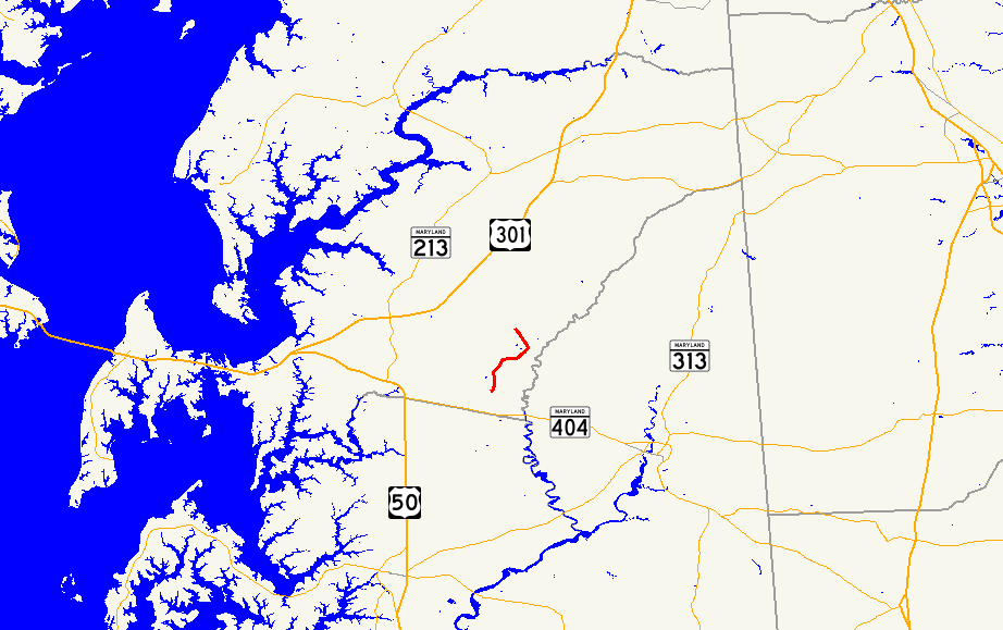 Map of Maryland Route 481